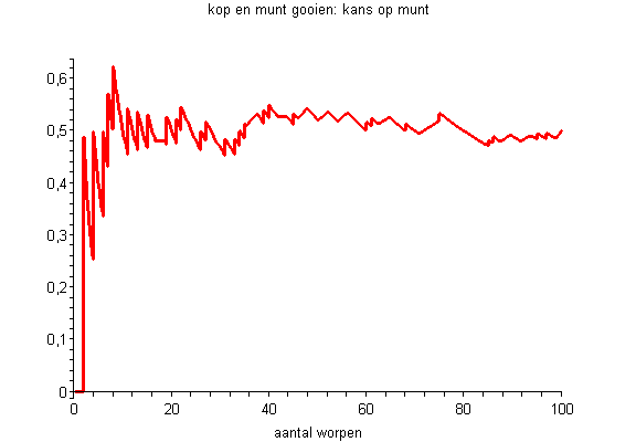 Law of large numbers: as the number of coin tosses increases, the proportion of heads approaches 0.5.